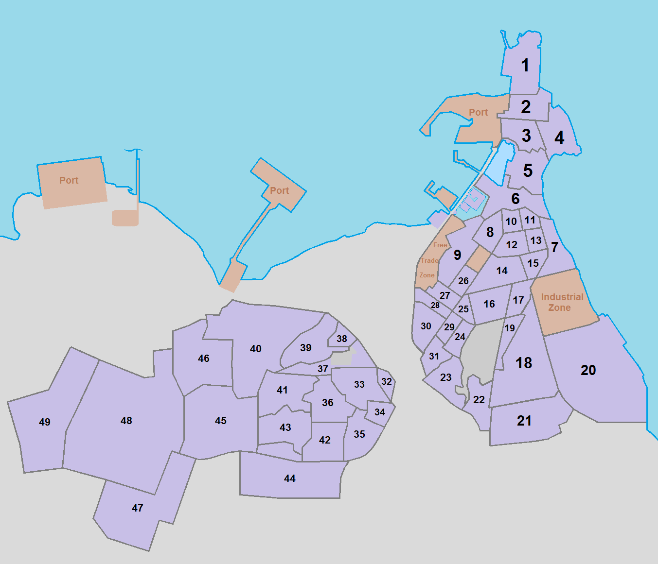 Map of Djibouti City and Balbala Districts